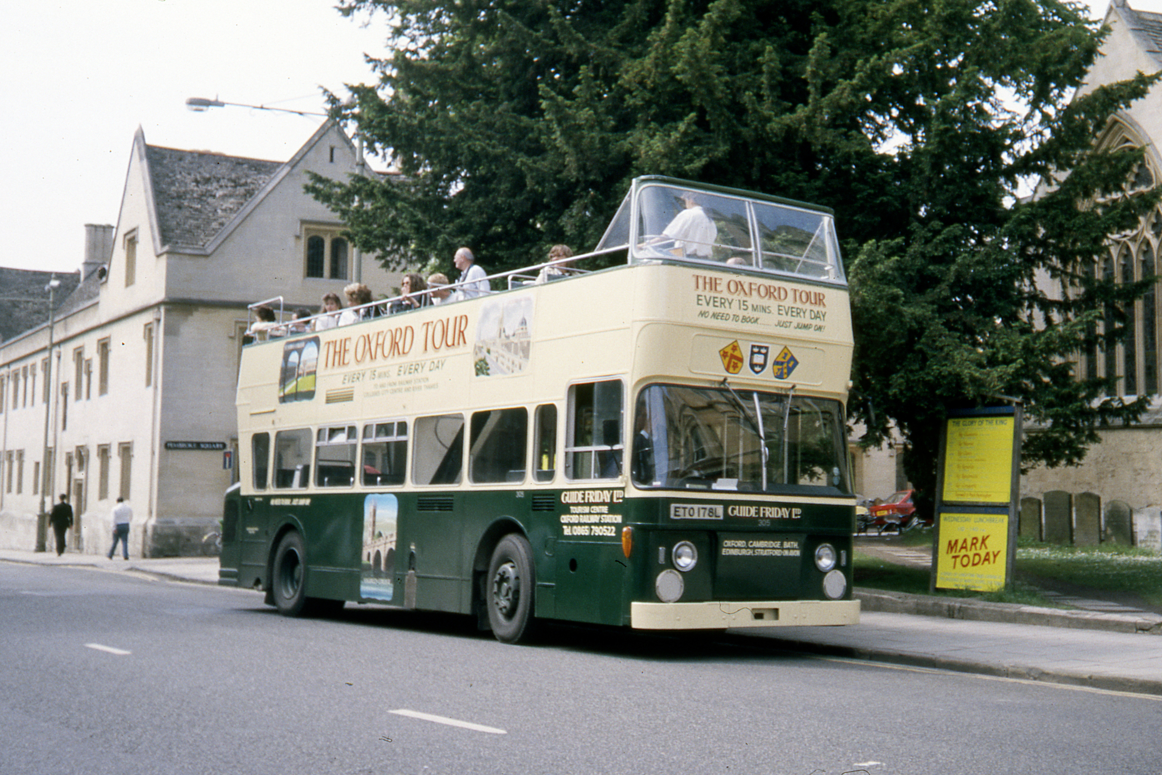 A Guide Friday "The Oxford Tour" open-top bus outside St Aldate's parish church, St Aldate's Street, Oxford in summer 1989. It is a Daimler Fleetline with a Willowbrook body, fleet number 305, registration mark ETO 178L. This bus was formerly with Nottingham City Transport, fleet number 178.